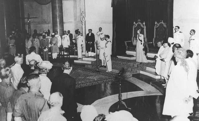 Lord Mountbatten swears in Pandit Jawaharlal Nehru as the first Prime Minister of free India at the ceremony held at 8.30 a.m. on August 15, 1947.